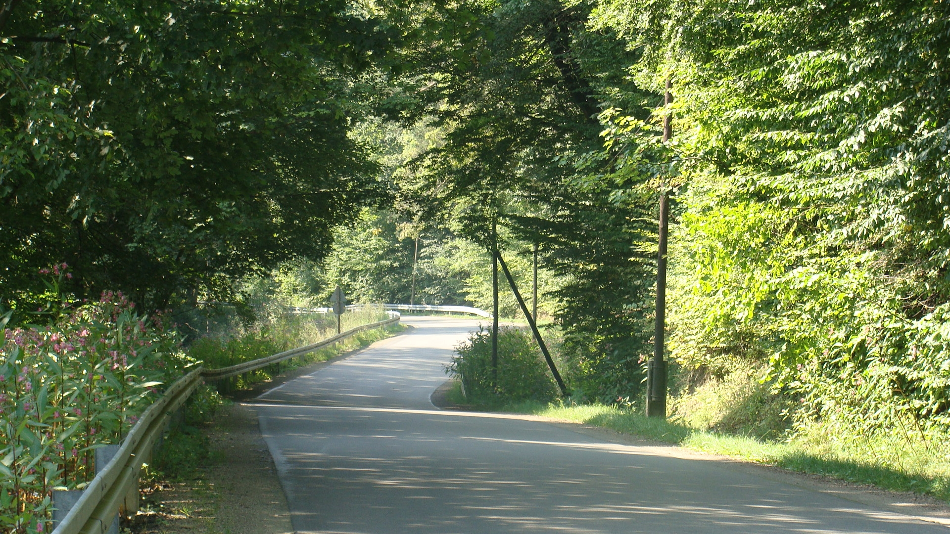 County Road nr 2232R (Sanok - Mrzygłód)